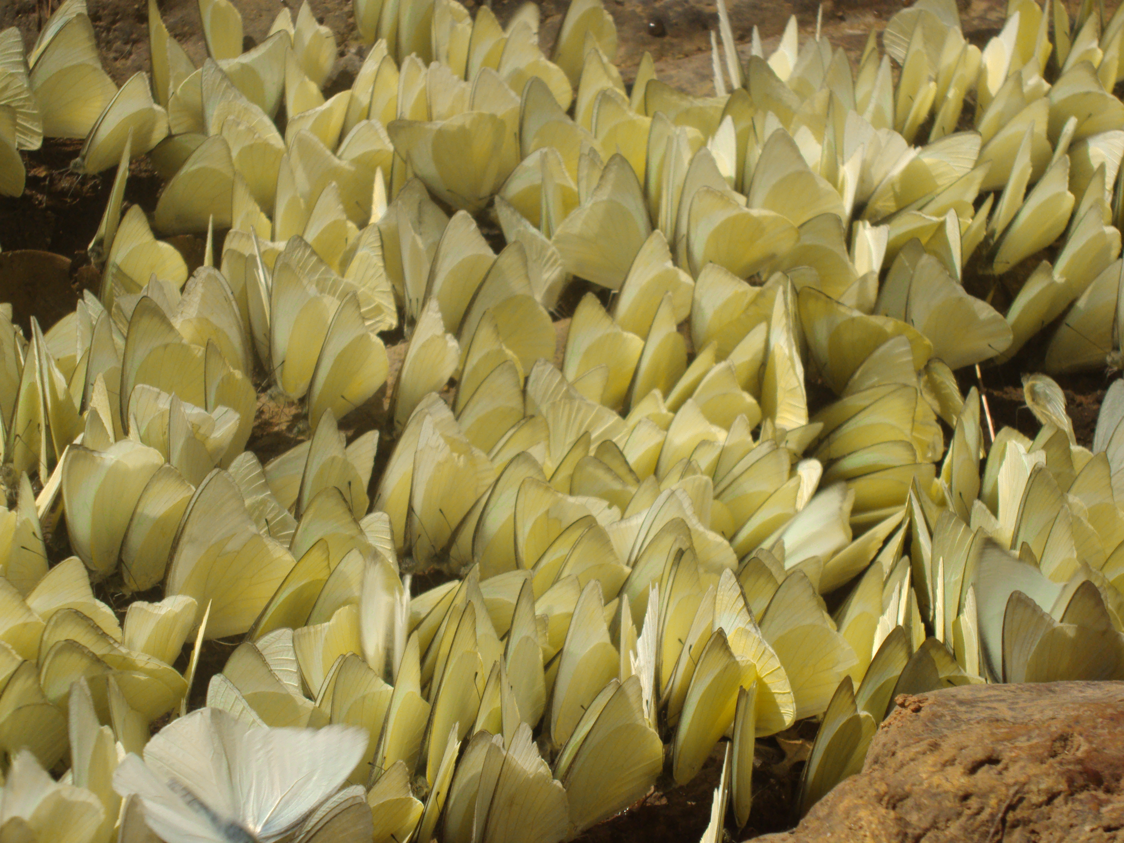 Common albatross Mudpuddling in Aralam Wildlife sanctury,Kerala.